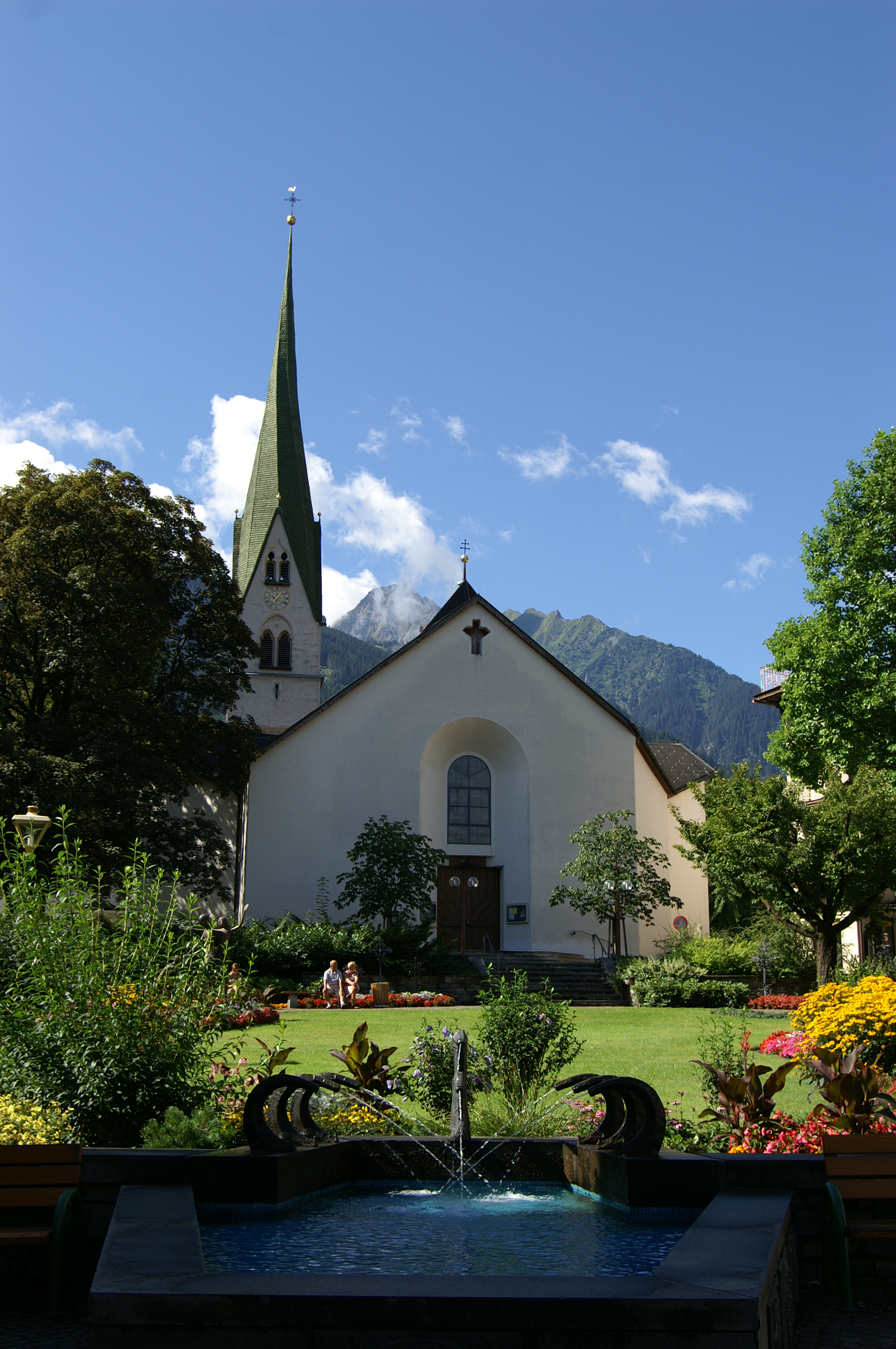 The Parish Church of the Assumption is a Roman Catholic church in Mayrhofen, Tyrol, Austria. Through the centuries, the original Gothic structure underwent several reconstructions, the last taking place in 1968-69 after a project by Clemens Holzmeister.